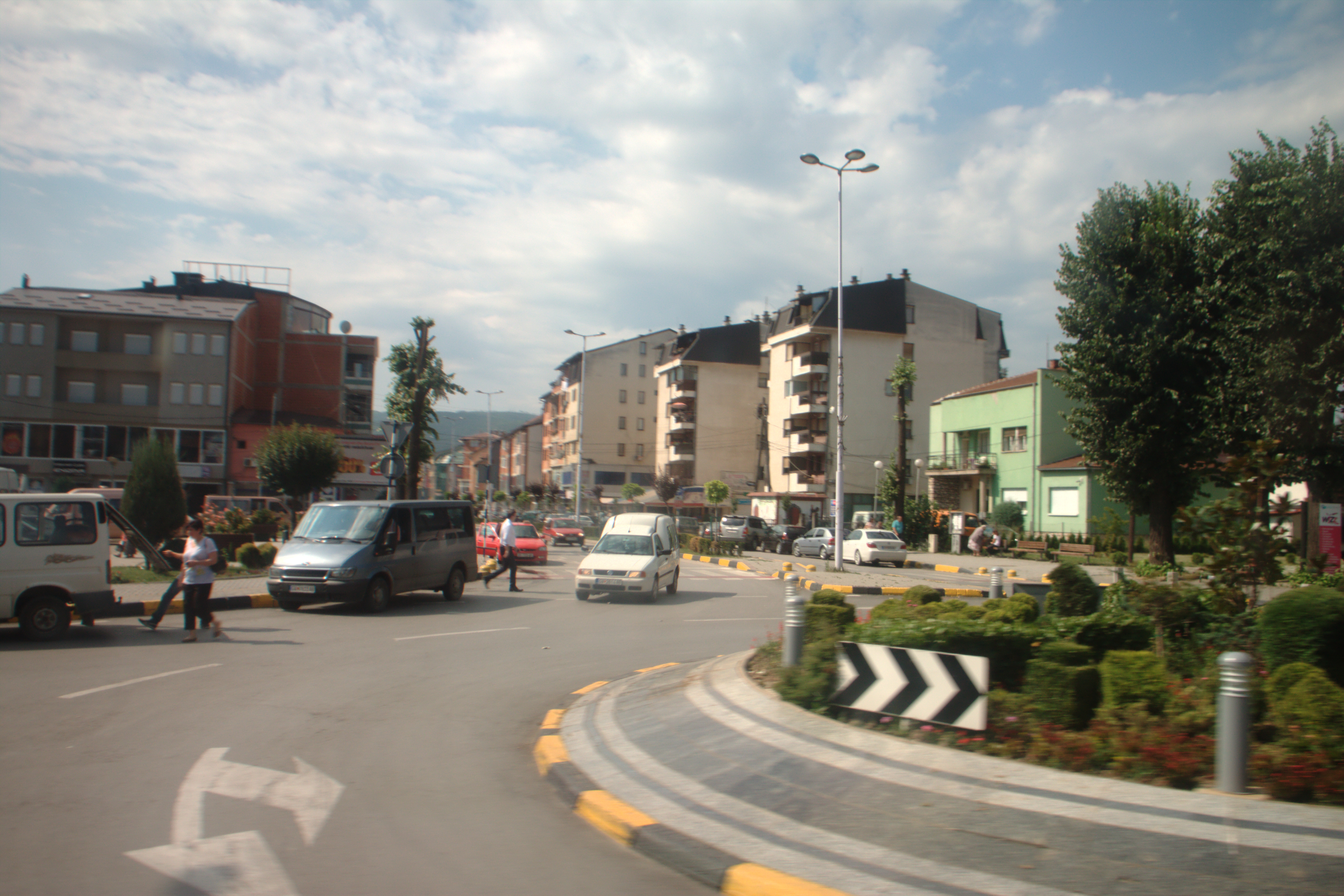 A roundabout in the town of Gostivar, western Macedonia